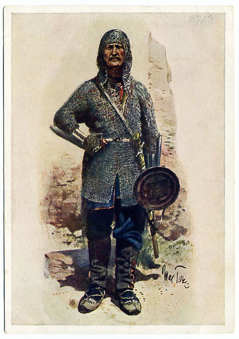 Khevsur man